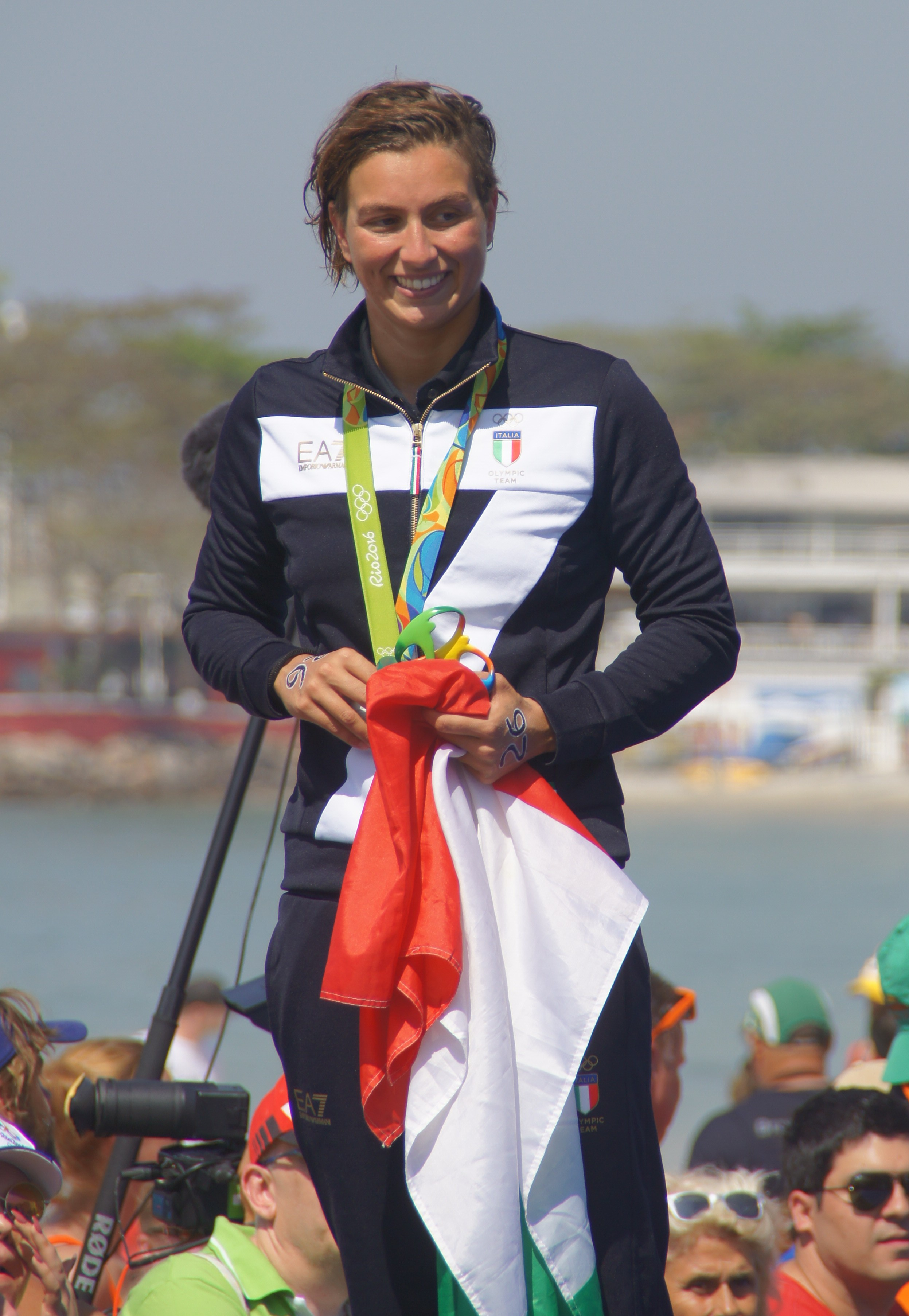 Medalha de prata/Silver medalist: Rachele Bruni. Itália/Italy slt.a33